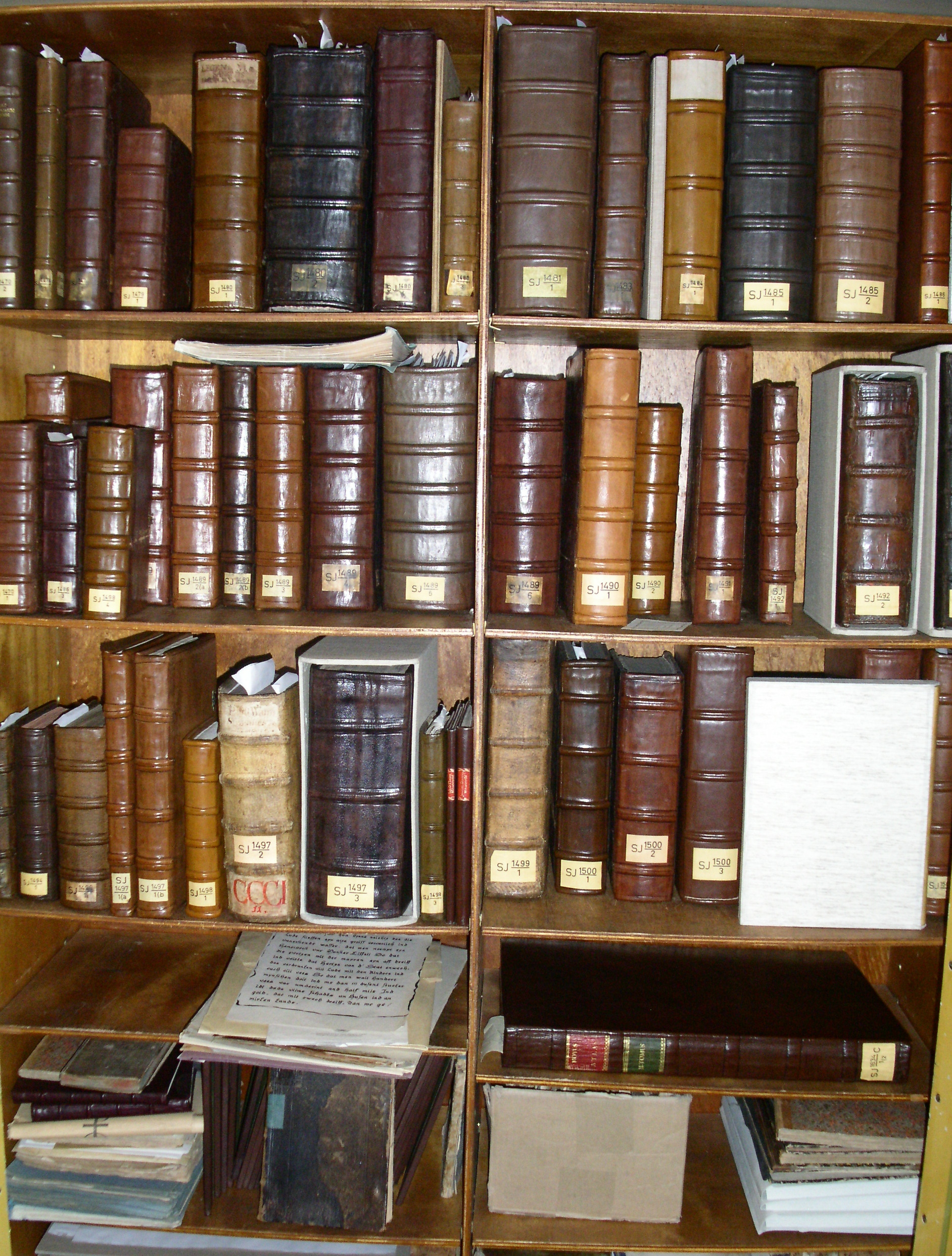 Oldest books in the Jesuitenbibliothek of the St. Michael-Gymnasium in Bad Münstereifel, Germany